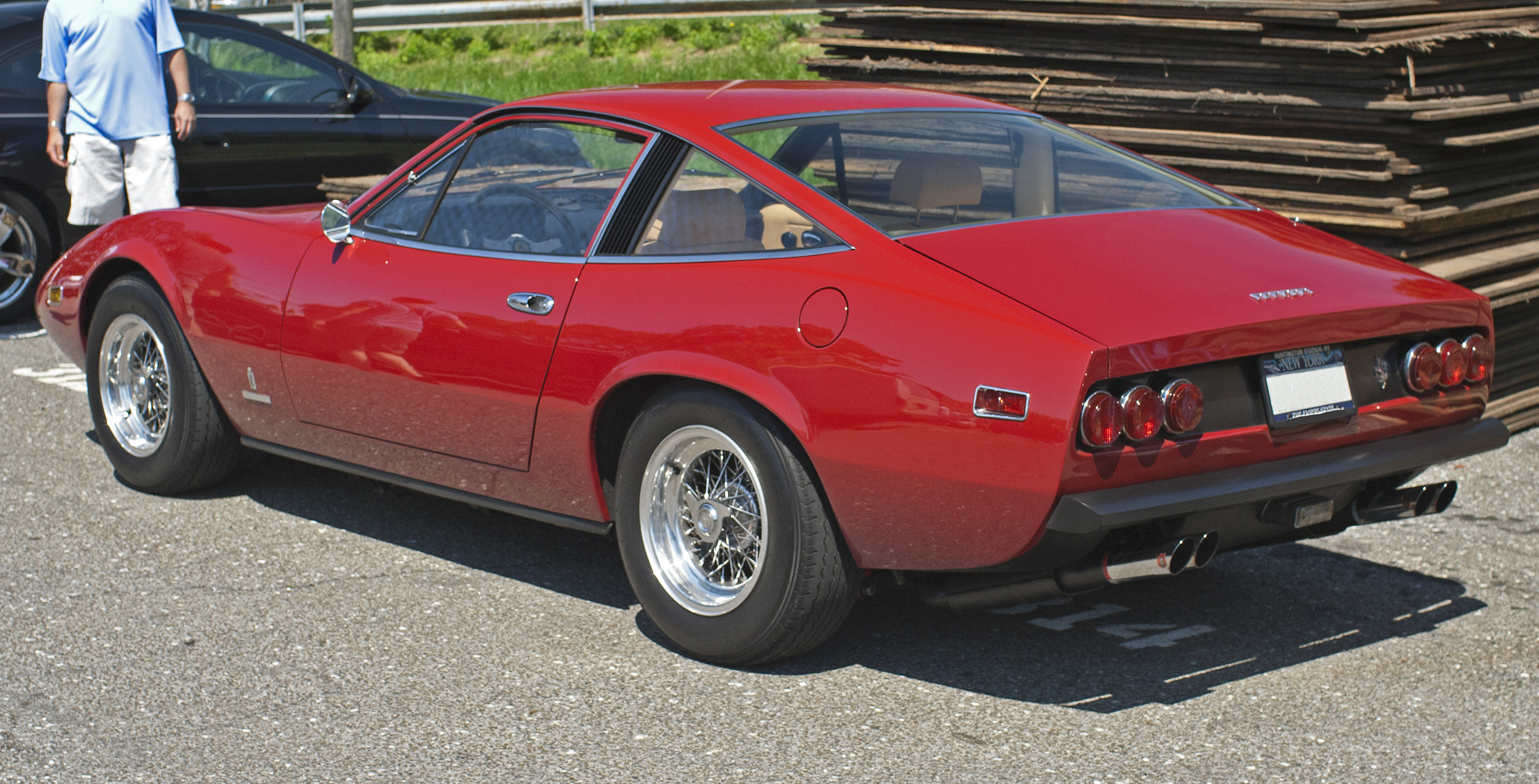 1972 Ferrari 365 GTC/4, unusual in red. Taken in the parking lot of the 2012 Greenwich Concours d'Elegance